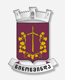 Ninotsminda coat of arms